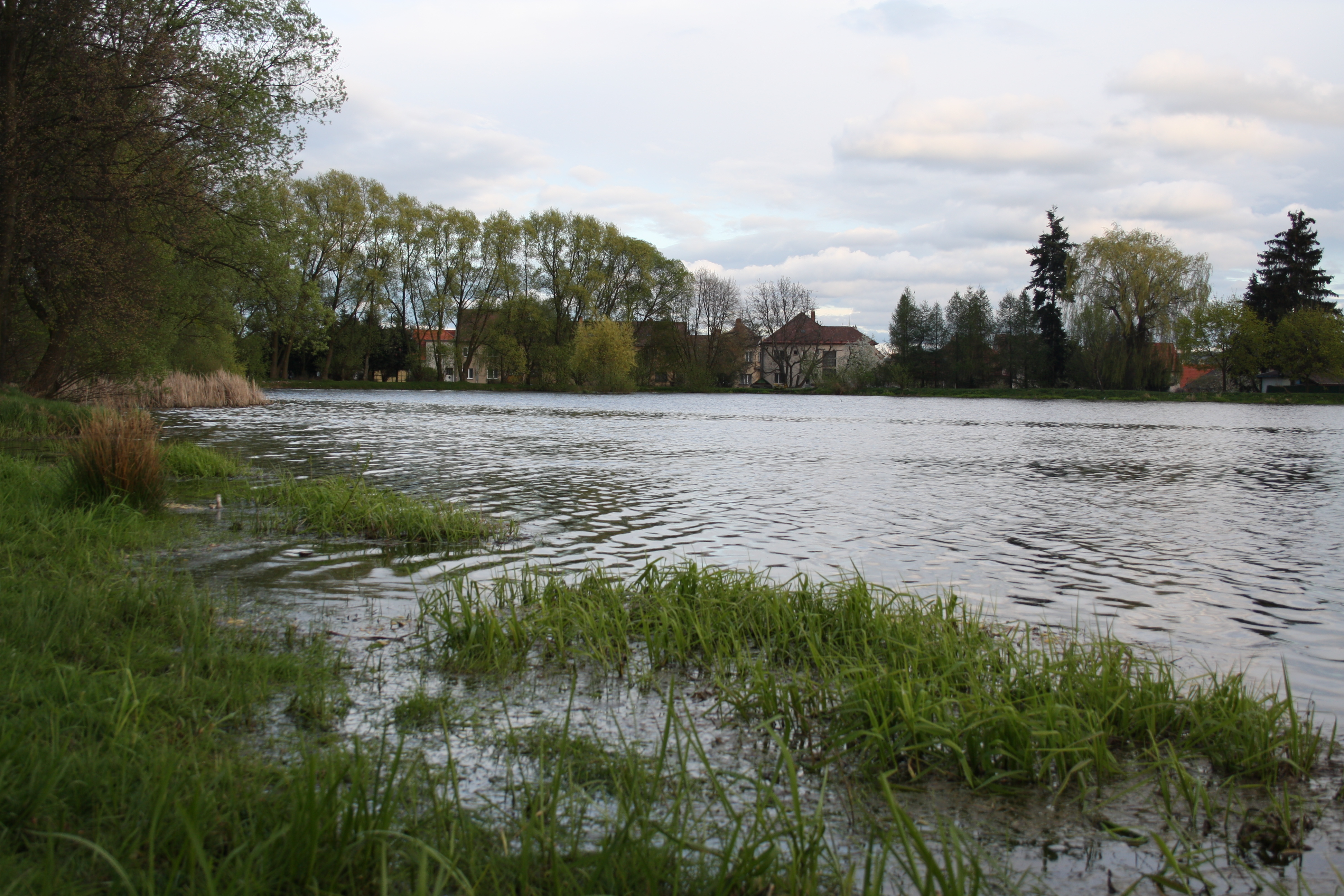 Pond Kuchyňka in Třebíč, left part with little island.